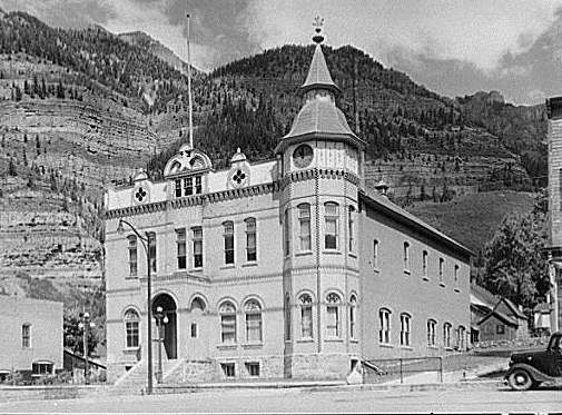 Elks Lodge. Ouray (Ouray County, Colorado) cropped Farm Security Administration This image or file is a work of a United States Department of Agriculture employee, taken or made as part of that person's official duties. As a work of the U.S. federal government, the image is in the public domain.